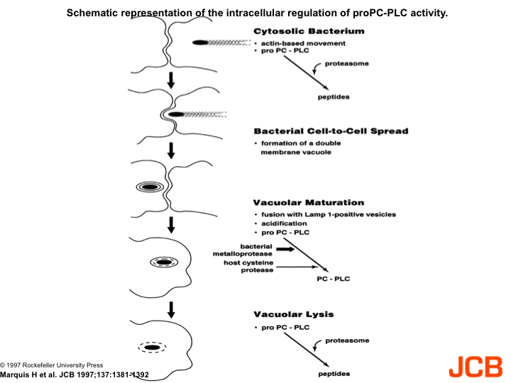 Schematic representation of the intracellular regulation of proPC-PLC activity. Asymmetric polymerization of host actin at the bacterial surface results in actin-based motility, which facilitates direct bacterial cell-to-cell spread. During cell-to-cell spread, the bacterium becomes transiently trapped in a double membrane vacuole, which fuses with Lamp1-positive vesicles. ProPC-PLC secreted in the vacuole is activated by either a bacterial or a host protease subsequent to acidification of the vacuole. Upon lysis of the vacuole, which is mediated in part by the phospholipases, the bacterium gains access to the cytosol where secreted proPC-PLC is degraded by the proteasome.